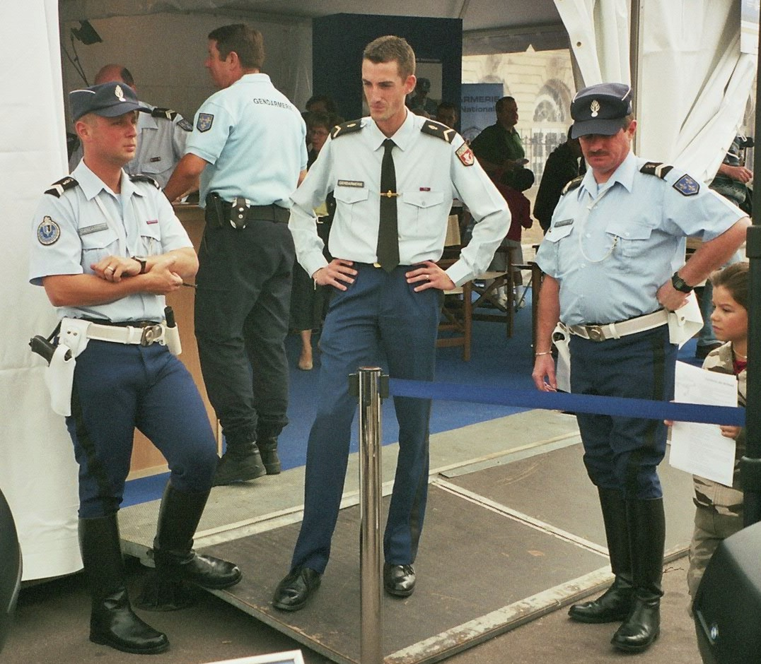 Nation/Defense days, Esplanade des Invalides, Paris, France, September 24-25, 2005